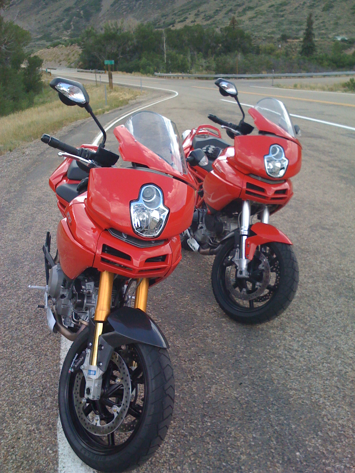 1000DS vs the 1100DS-S